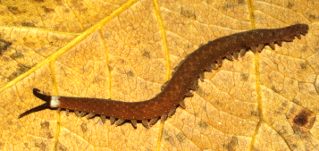 Oroperipatus species on leaf.